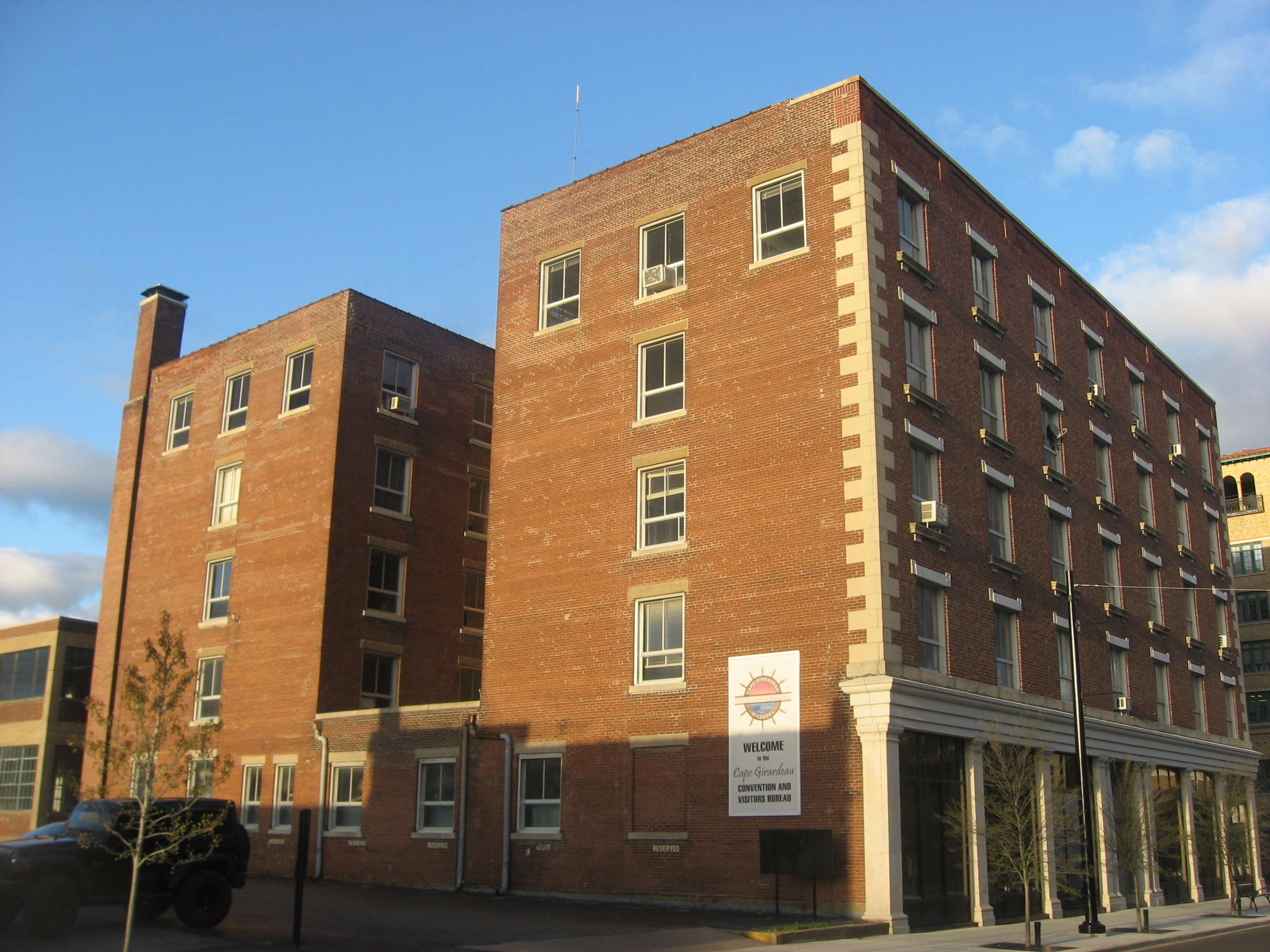 Western side and front of the Himmelberger and Harrison Building, located at 400 Broadway Street in downtown Cape Girardeau, Missouri, United States. Built in 1908 for an insurance company, it is listed on the National Register of Historic Places, and it is part of a Register-listed historic district, the Broadway and North Fountain Street Historic District.